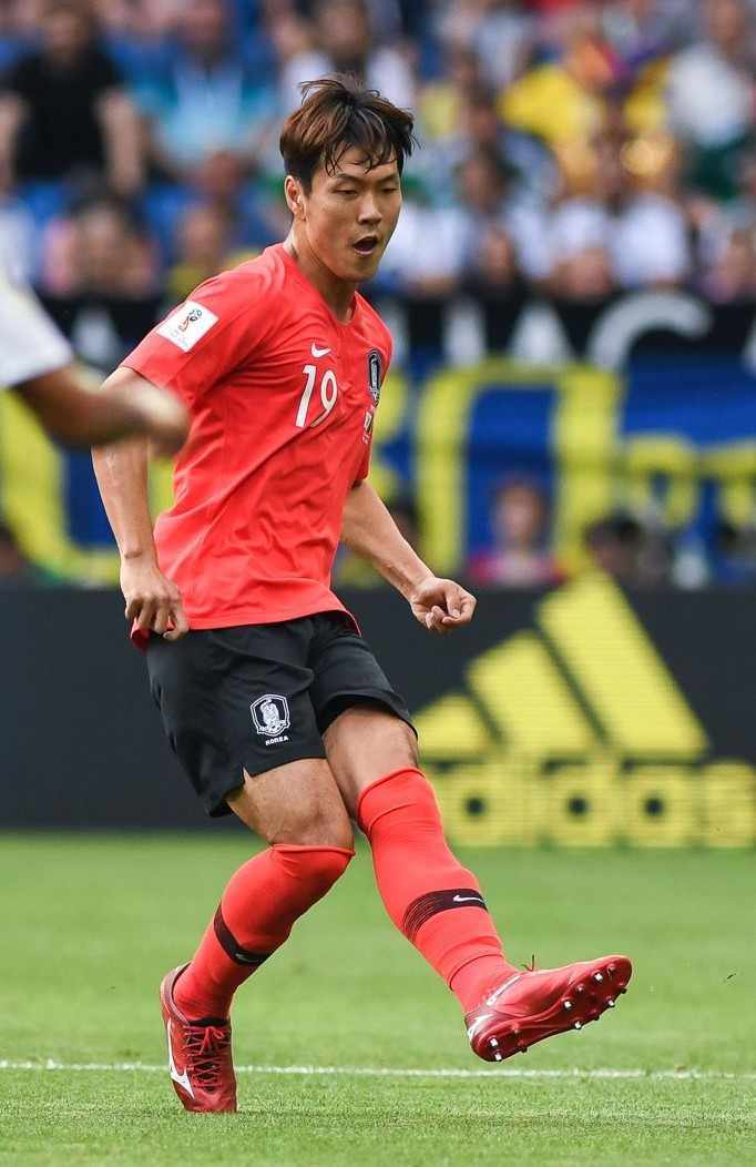 Mexico and South Korea match at the FIFA World Cup 2018-06-23